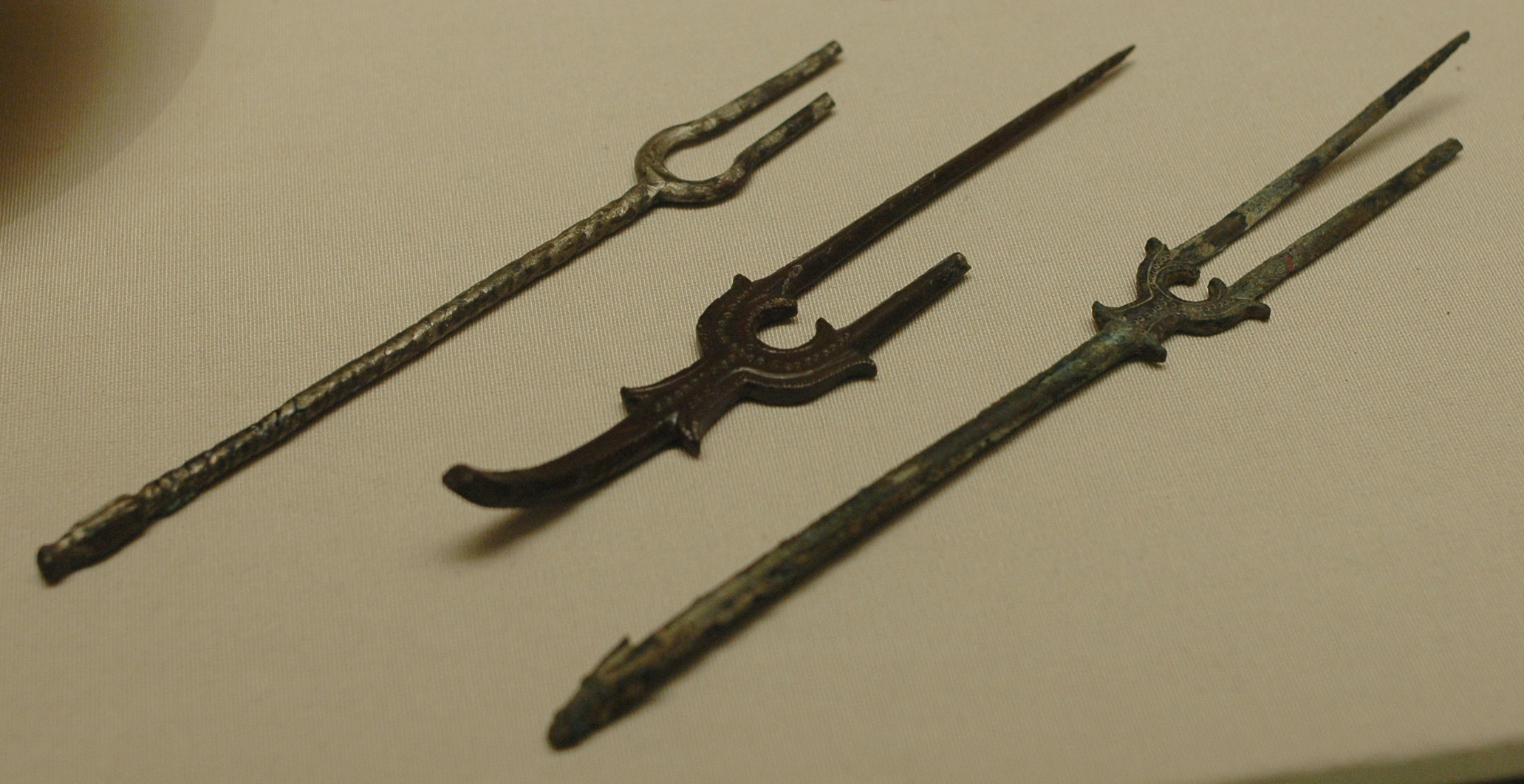 Forks.